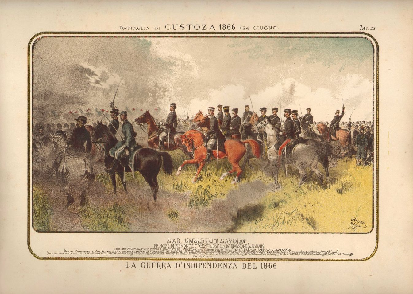 Humbert of Savoy (1844-1900) at the Battle of Custoza (24 June 1866).